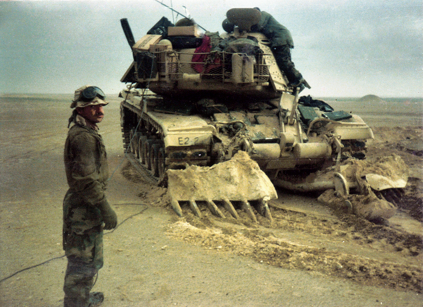 Tank plows were used to cut the road throu the mine fields in Kuwait